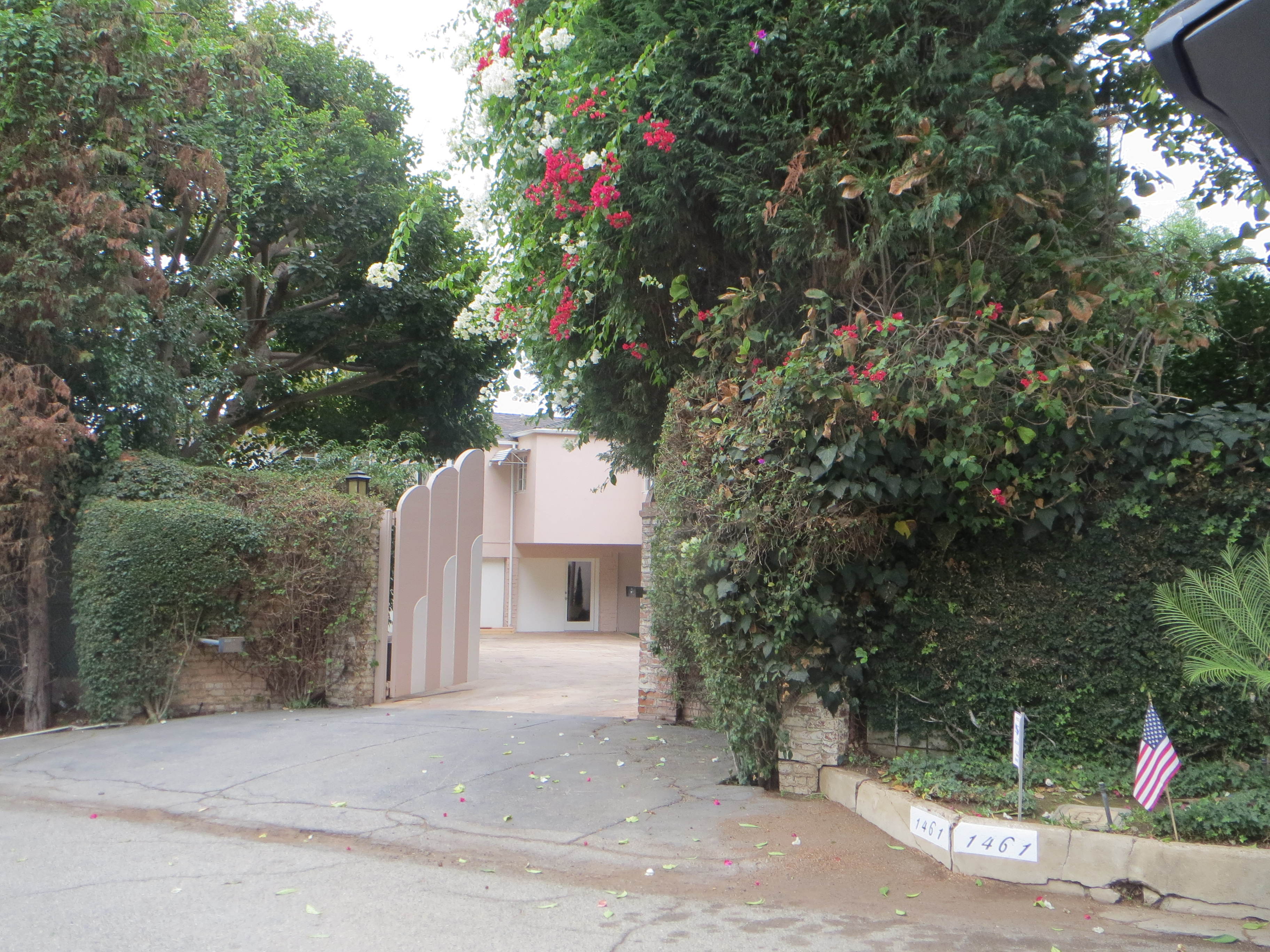 1461 Amalfi Drive Pacific Palisades, former home of Vicki Baum